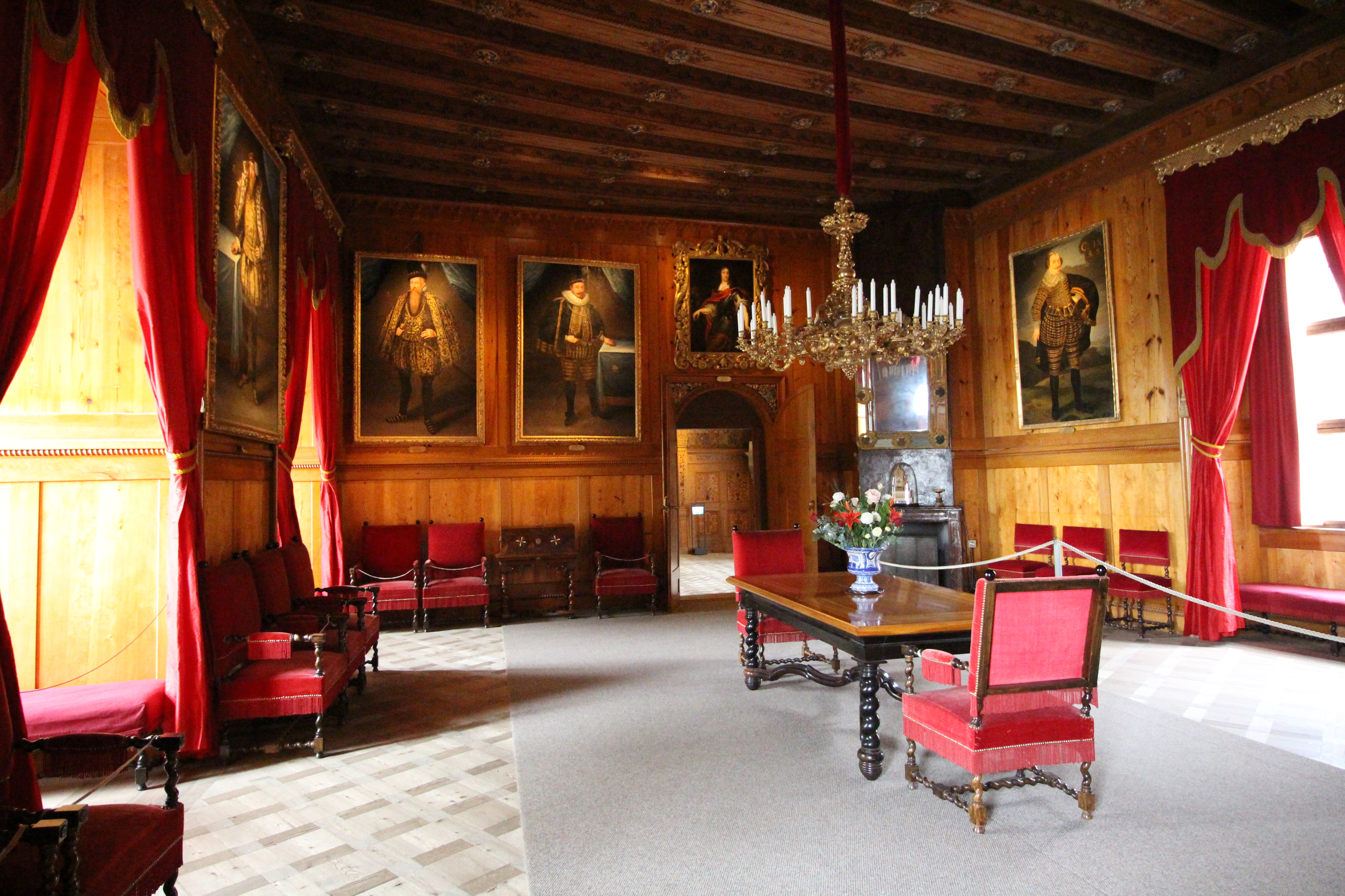 Gripsholm castle, Sweden